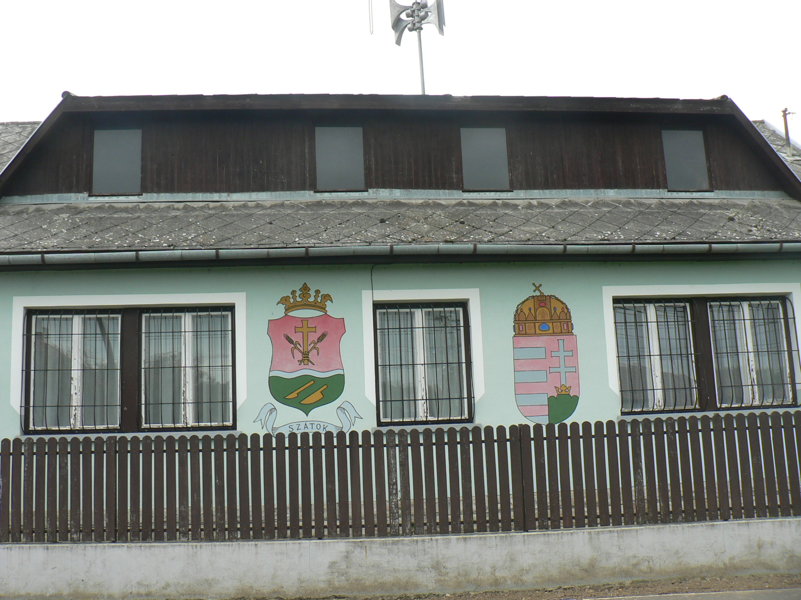 Szátok, községháza